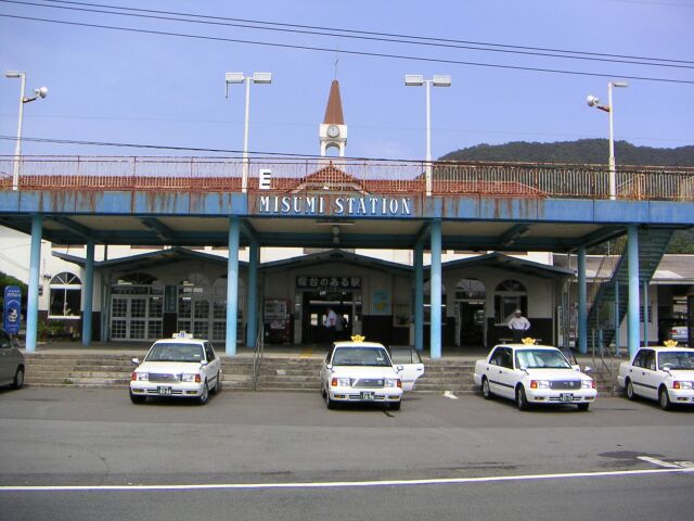 Misumi Station in Uki City, Kumamoto, Japan